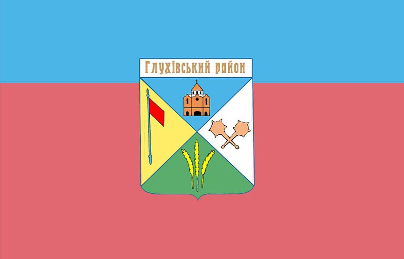 Flag of Hlukhiv Raion